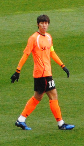 The football game of Jeju United FC Vs Jeonbuk Hyundai Motors Football Club at 28th Nov. 2010 at Jeju Wolrdcup stadium